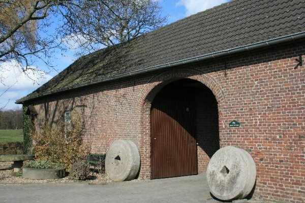 Cultural heritage monument No. 35 in Heinsberg